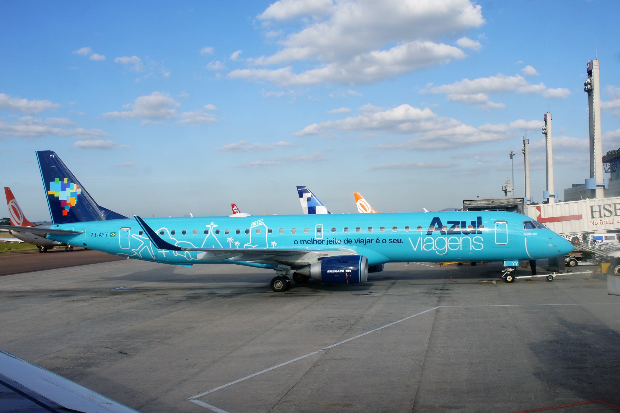 Embraer 195 operating for Azul Linhas Aéreas Brasileiras at Afonso Pena International Airport (Curitiba Airport - CWB), Brasil